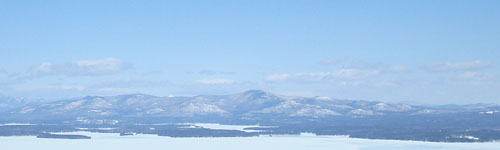 The Ossipee Mountains as seen from Mt. Klem